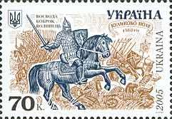 Stamps of Ukraine